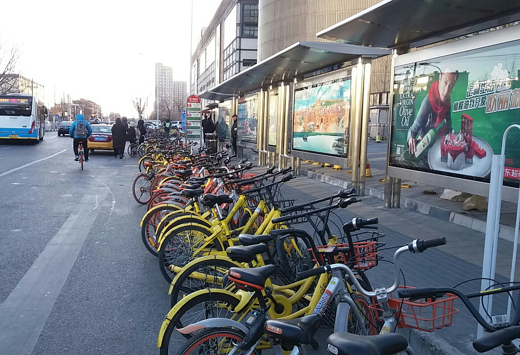 20180116̠Bikes Mobike & Ofo put in front of bus stops to prevent people from taking on buses